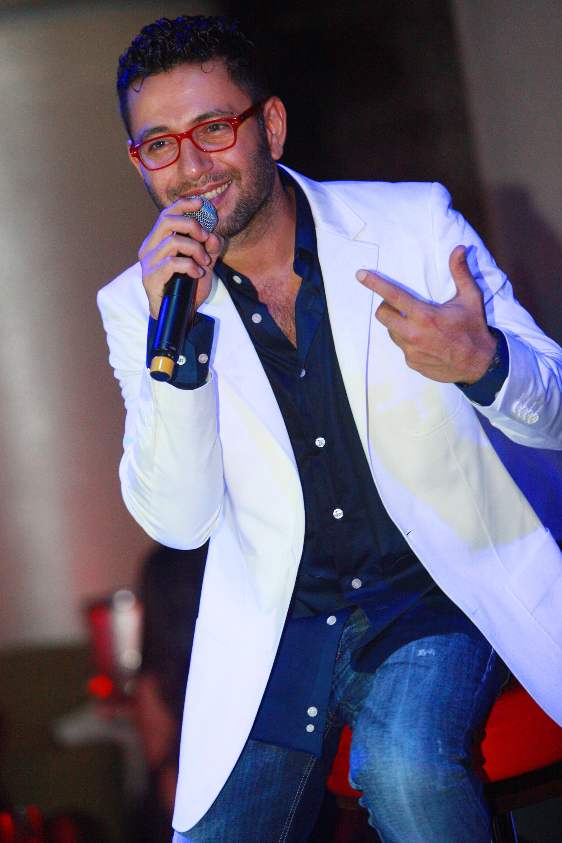 Ziad Bourji - June 7, 2013